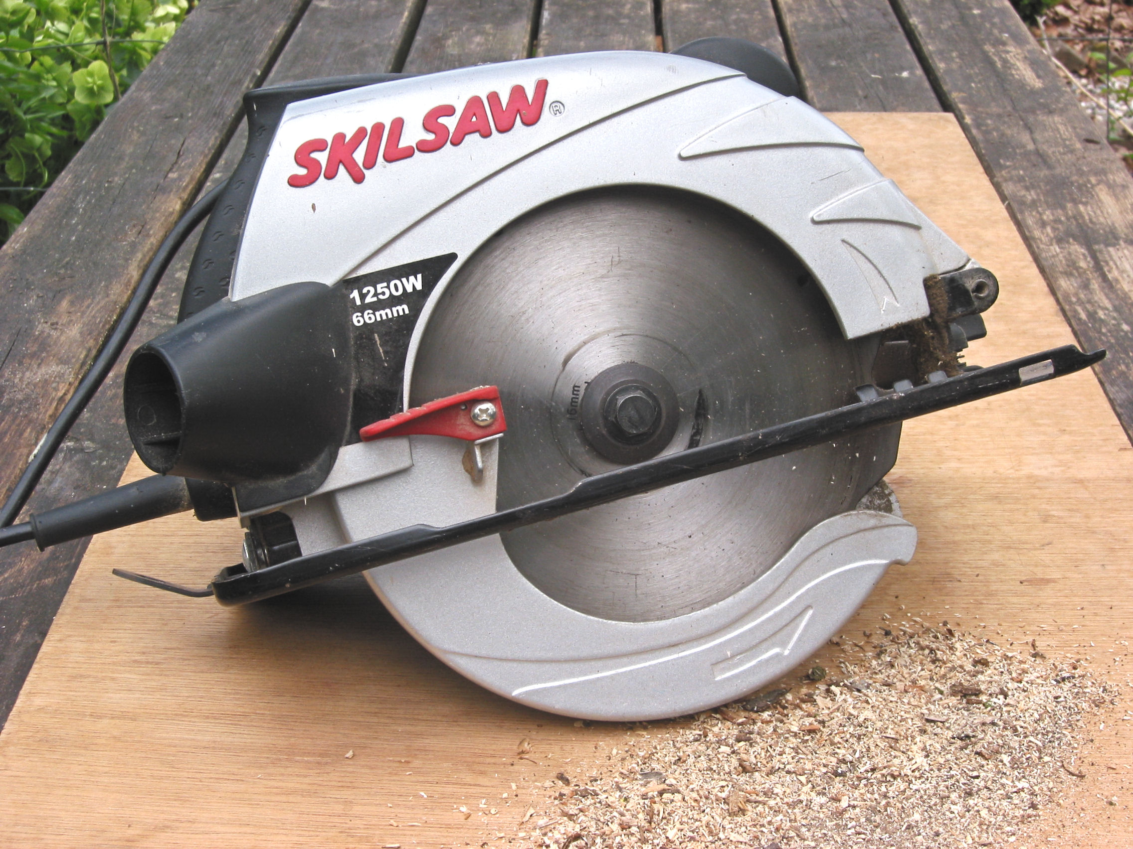 Circular saw